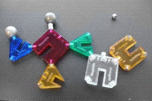 Magnetix toy with broken magnets from Rose Art Industries Inc., of Livingston, N.J. Image from U.S. Government Consumer Product Safety Commission recall notice. URL